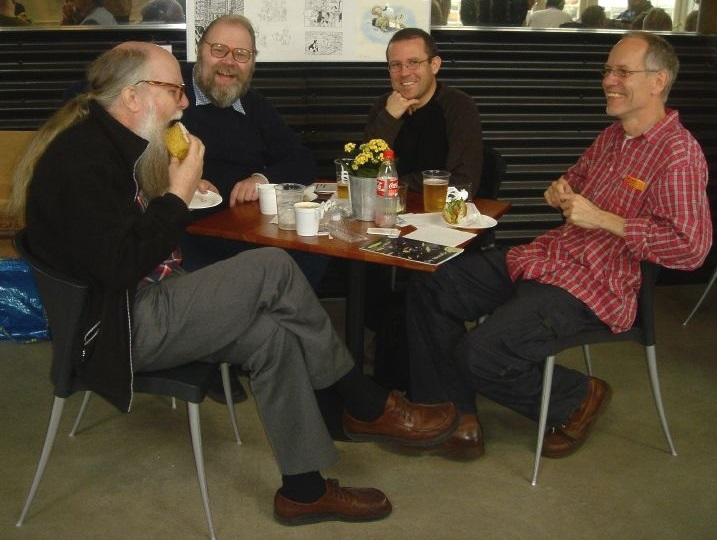 Valhalla creators Per Vadmand, Hans Rancke-Madsen, Peter Madsen and Henning Kure, at the Komiks.dk 2006 comics festival in København, Denmark.